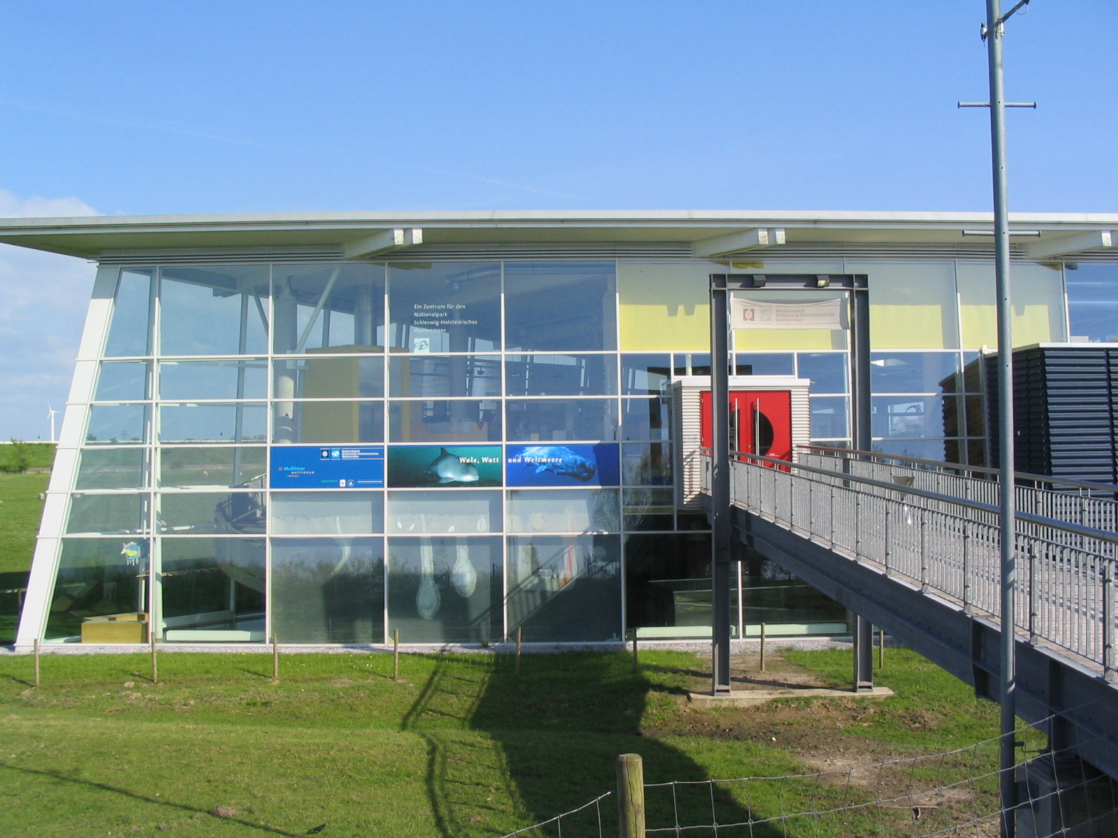 Multimar Wattforum, Entrance